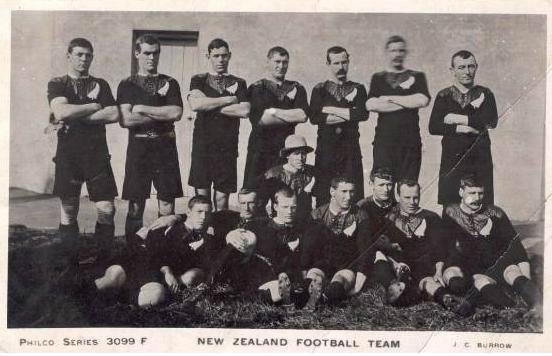 All blacks 1905